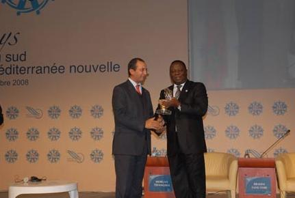 Remise du Grand Prix MEDays 2008 à Morgan Tsvangirai alors Premier Ministre désigné du Zimbabwe